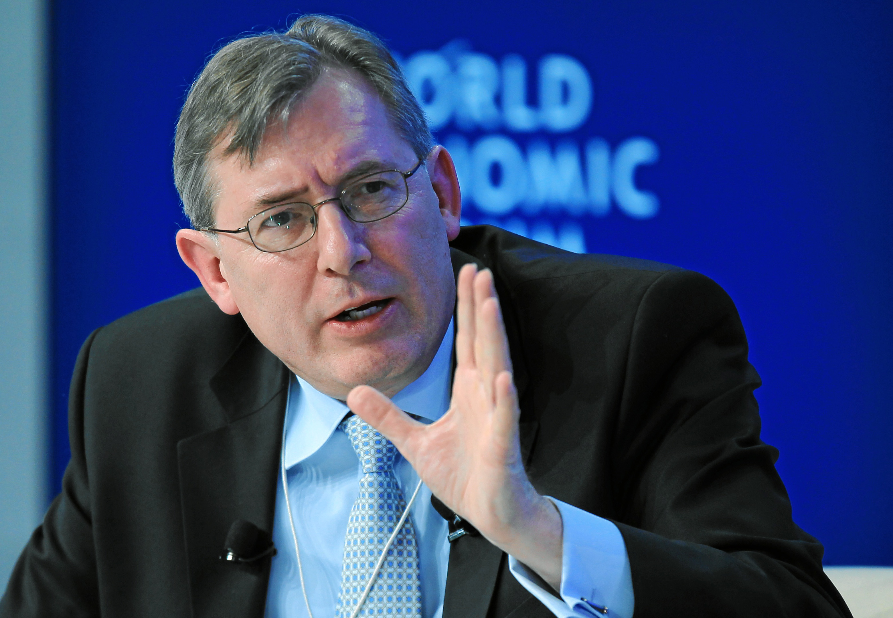 DAVOS/SWITZERLAND, 25JAN12 - Hans-Paul Buerkner, Global Chief Executive Officer and President, The Boston Consulting Group, Germany speaks during the session 'The Global Business Context' at the Annual Meeting 2012 of the World Economic Forum at the congress centre in Davos, Switzerland, January 25, 2012. Copyright by World Economic Forum by Sebastian Derungs